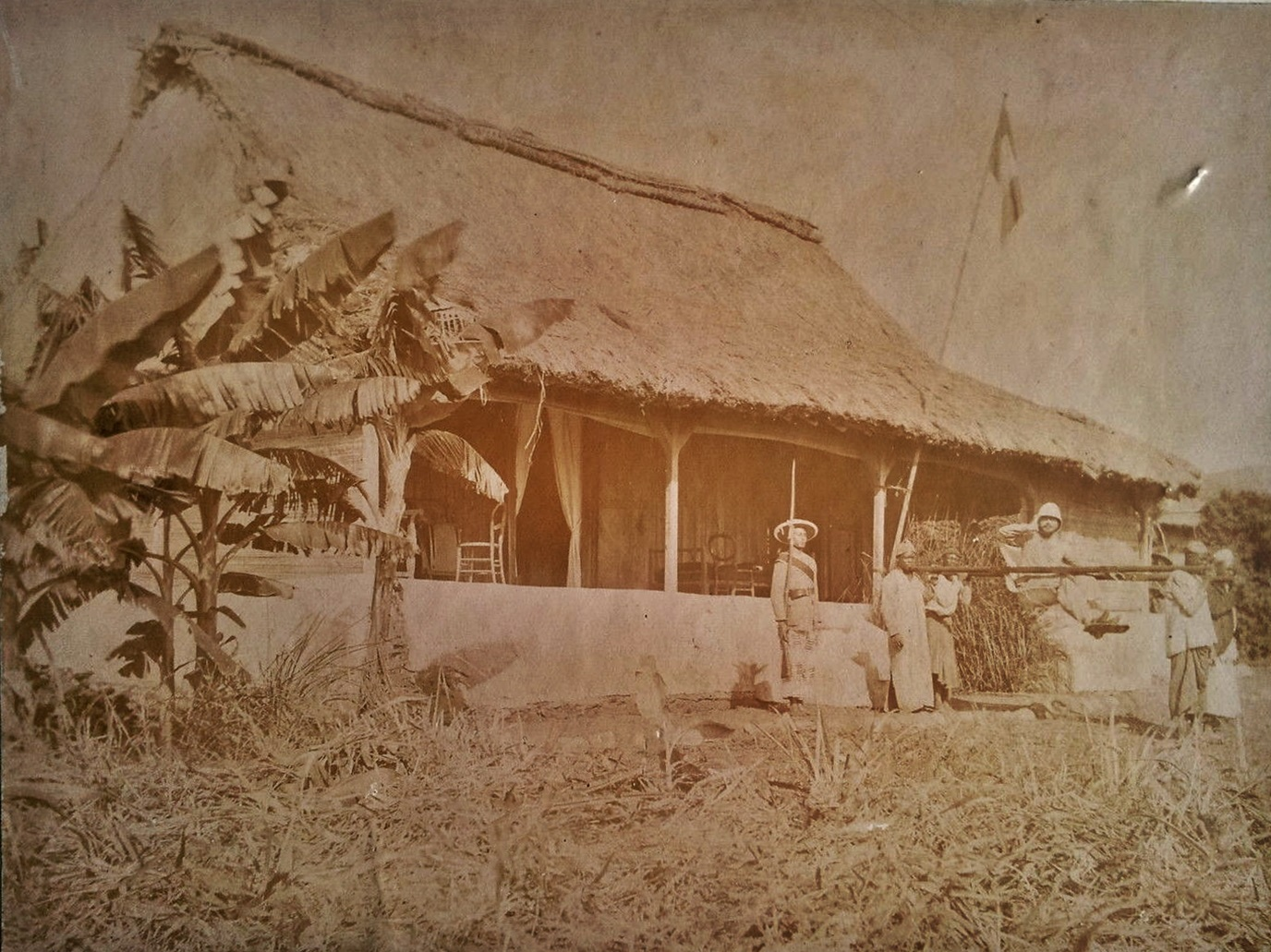 French colonial official Massol in front of his house in Mayotte, Comoro Islands. Late 19th century.